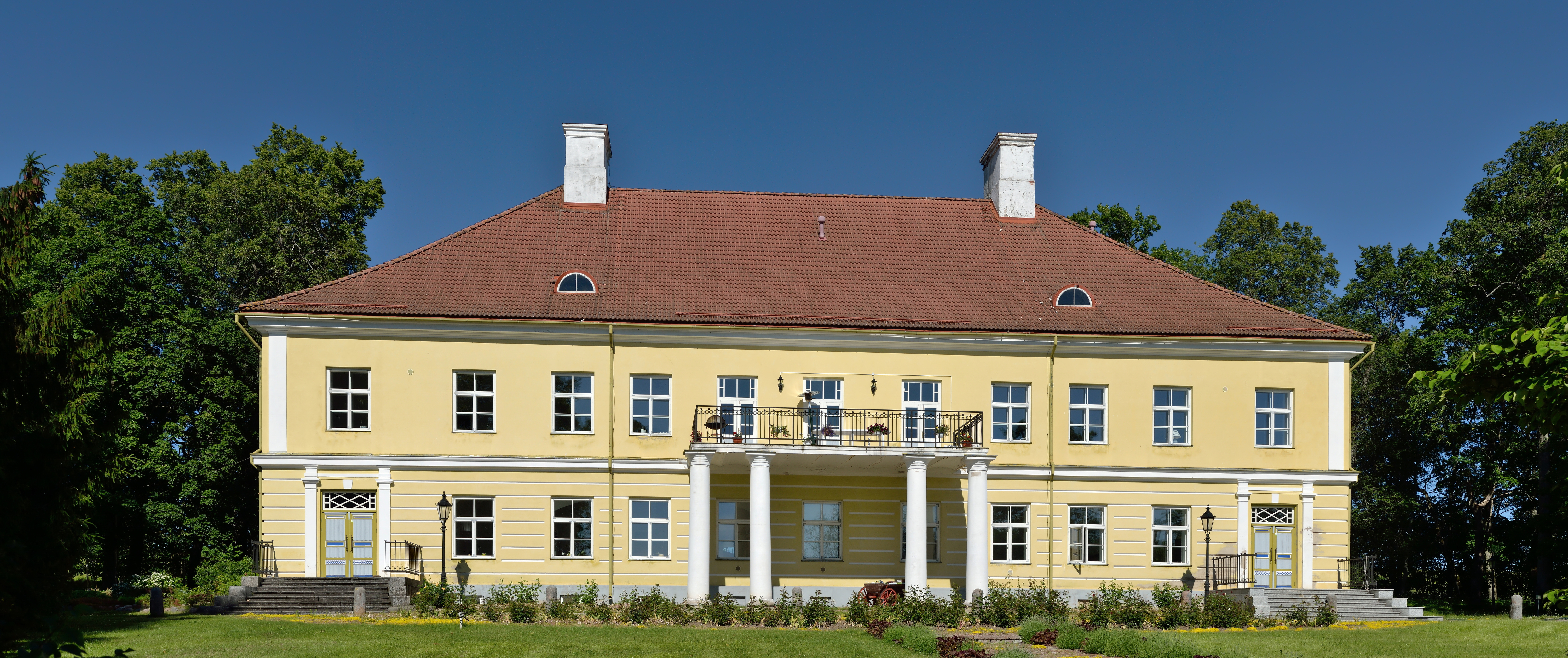 Saadjärve manor main building